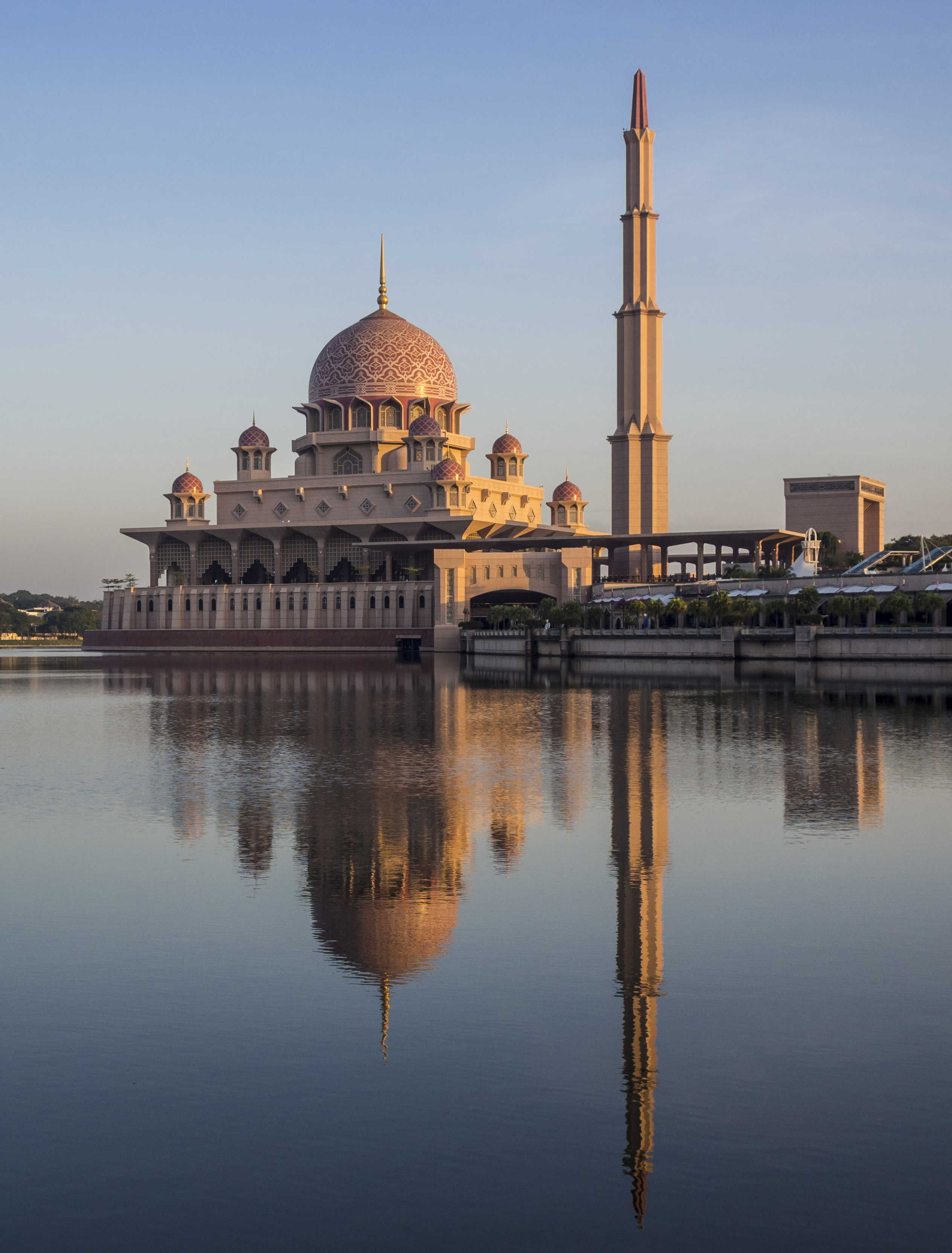 Putra Mosque, in Putrajaya, Malaysia at golden hour in 2016.